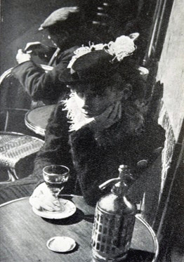 Cafe in SaintGermaindesPrés Paris, Suzanne Eisendieck.